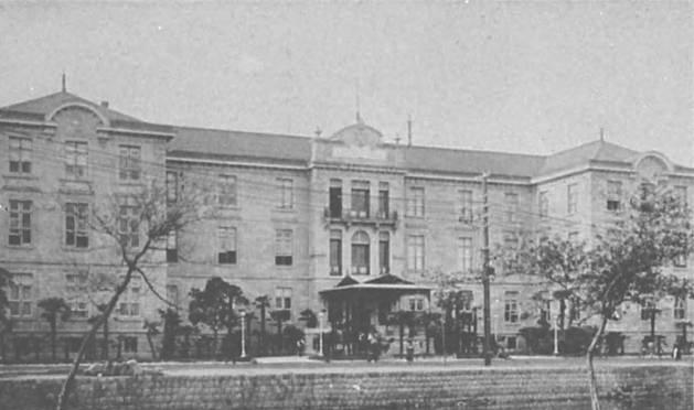 Tokyo's fancy restaurant for westerners especially officials (1872-1923).